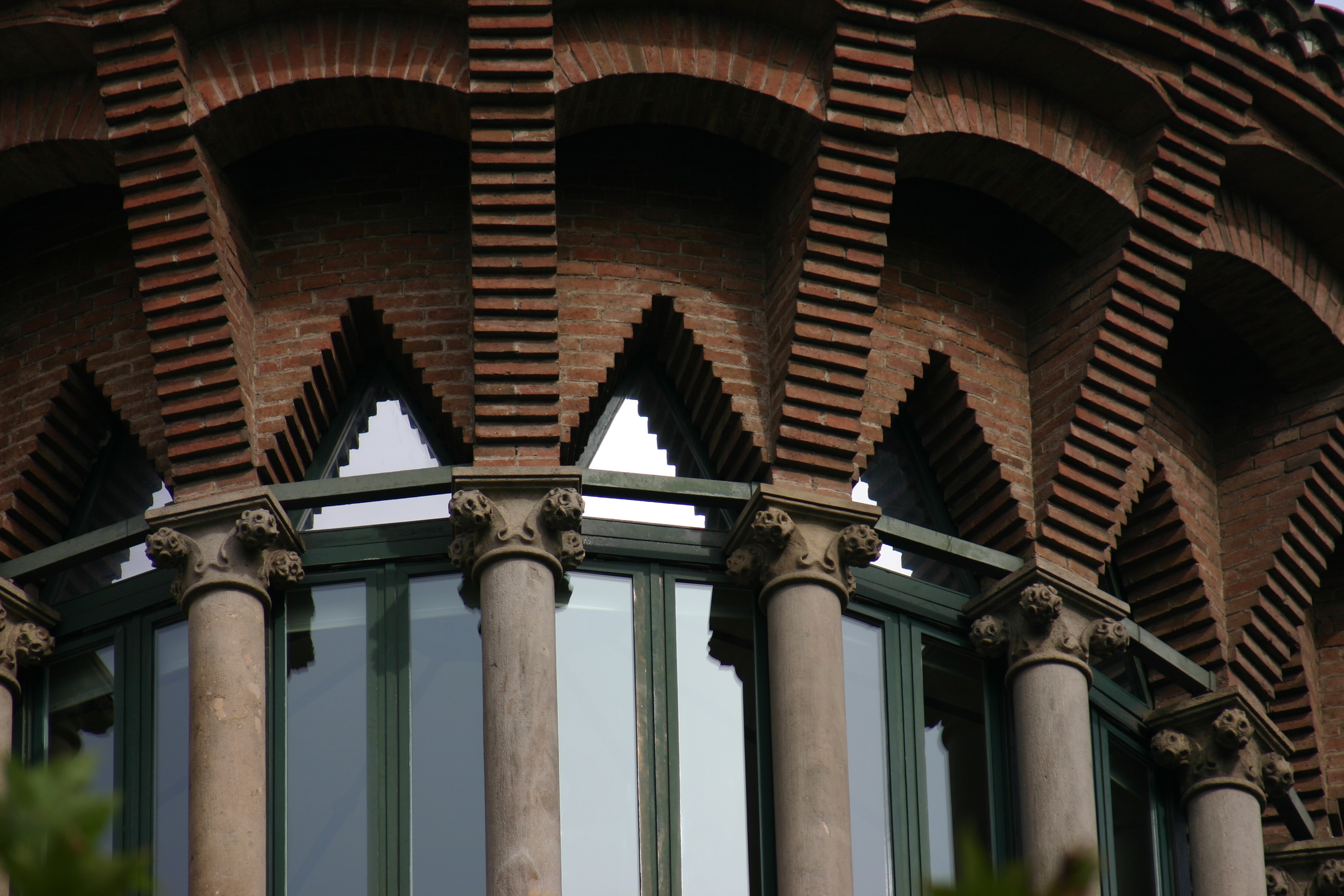 Casa de les Punxes by architect Josep Puig i Cadafalch, Barcelona